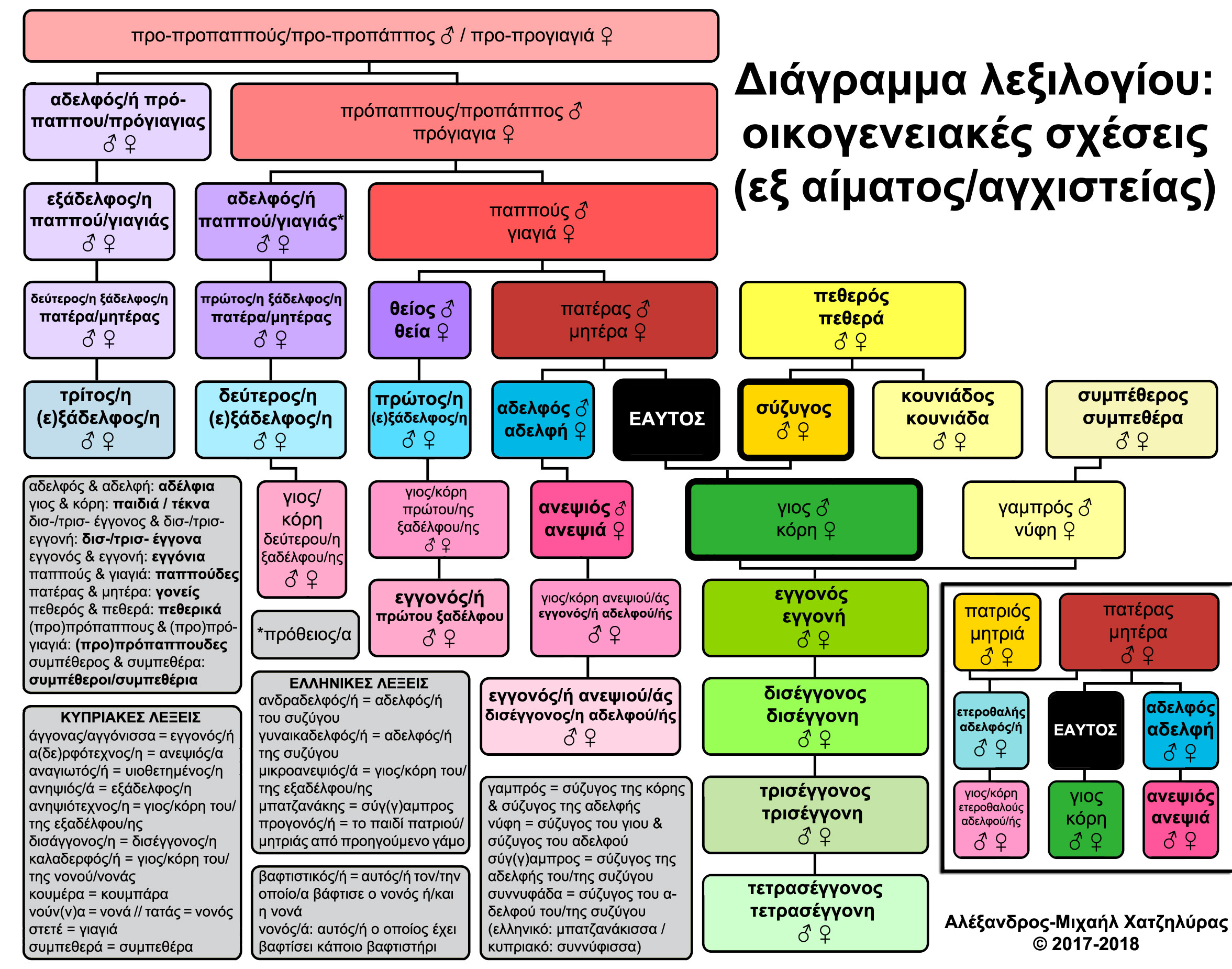 Diagram of relations in a family